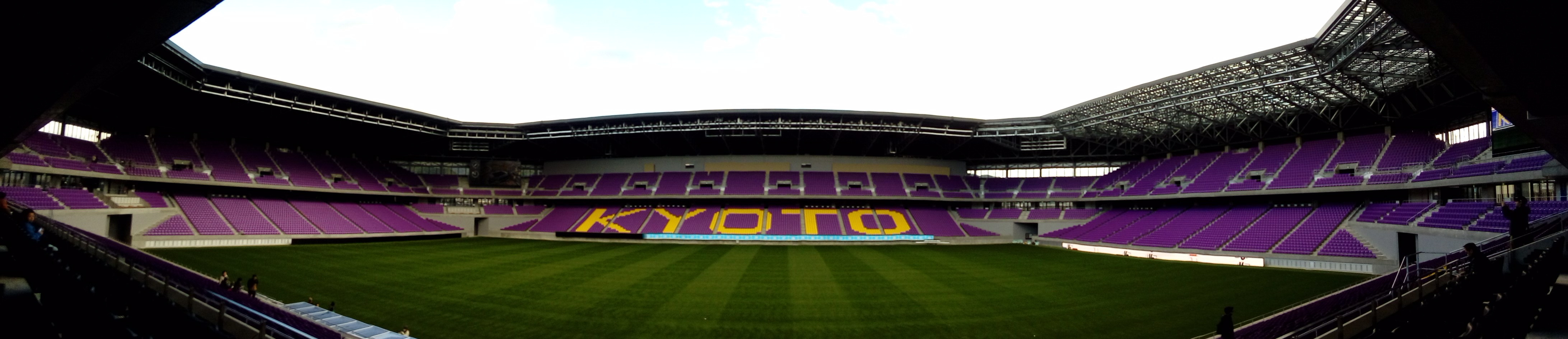 The panoramic photograph of Kyoto Stadium (Sanga stadium by kyocera).